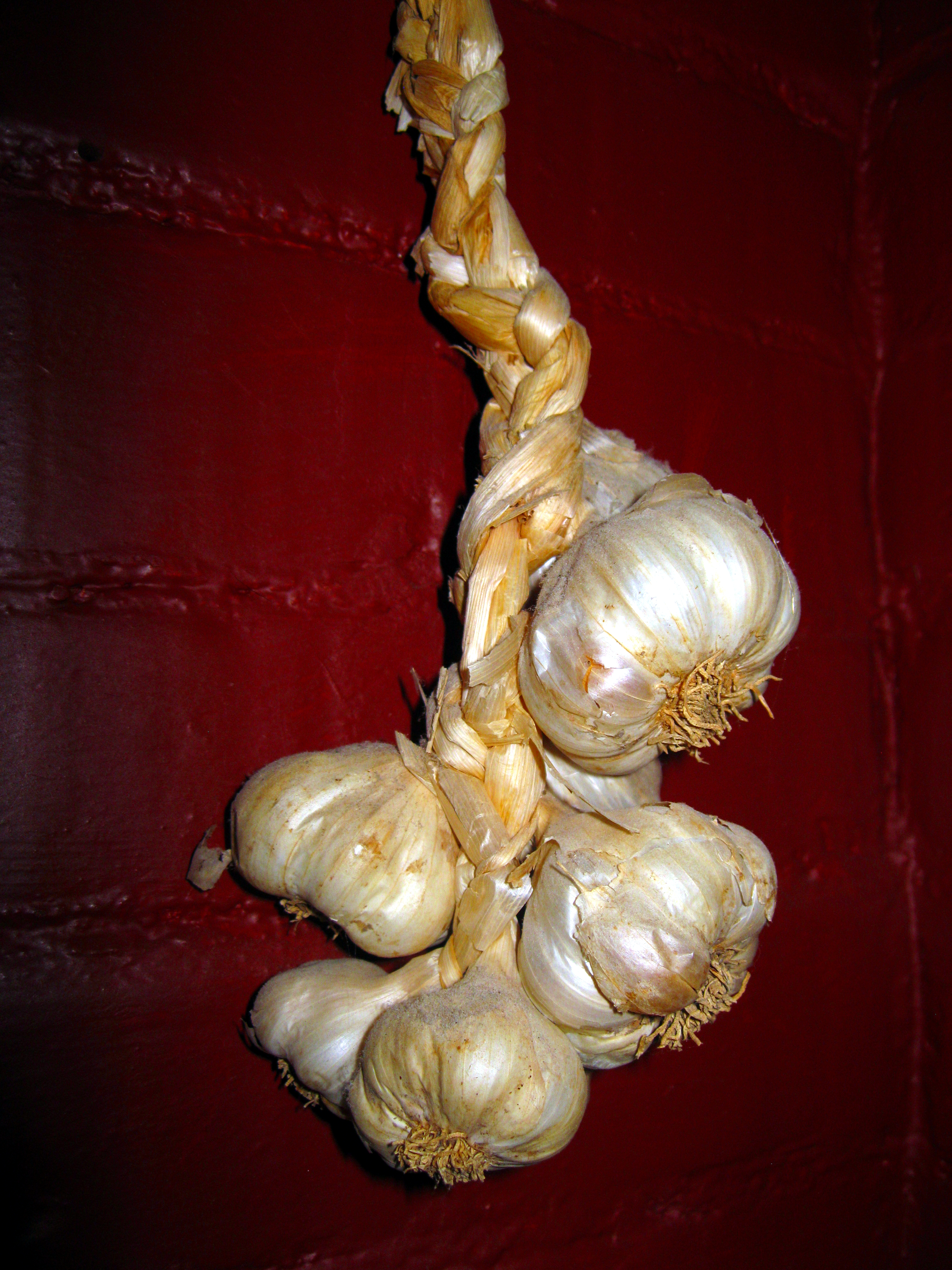 Onion bunch